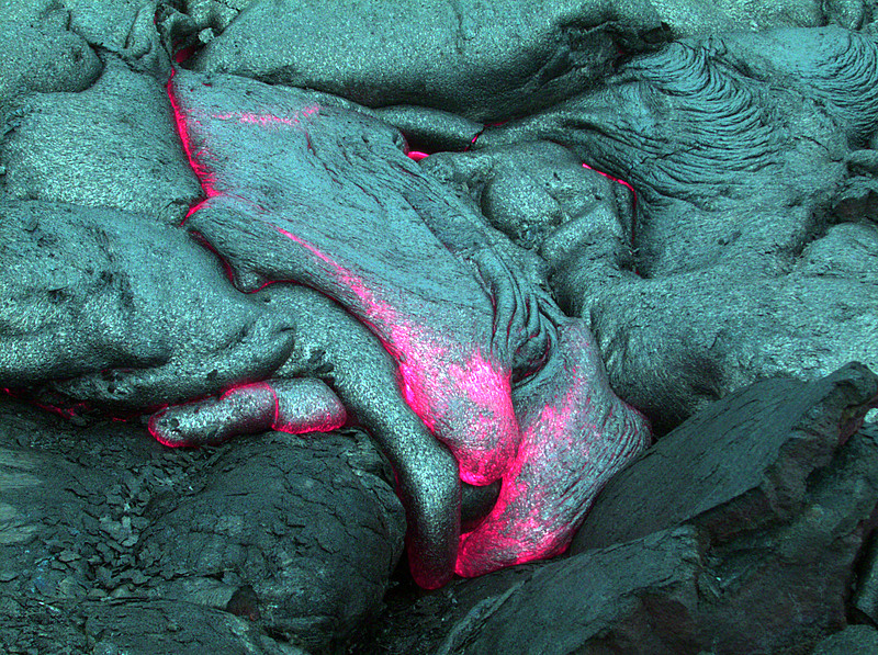 Hawaiian underwater lava flow (photoed in a bathyscope)